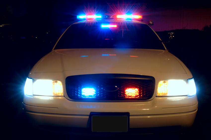 Police car emergency lighting fixtures switched on.